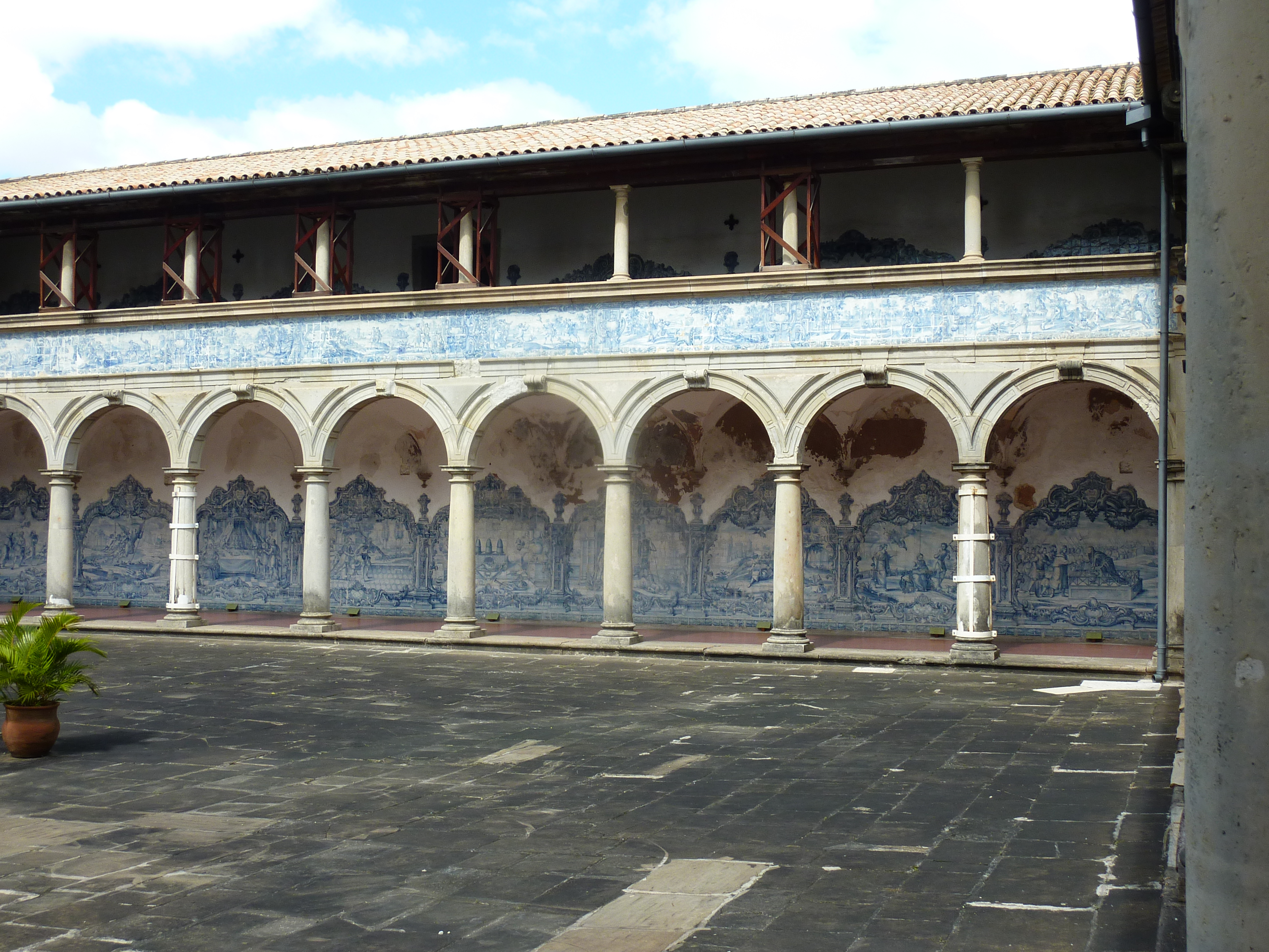 Cloisters of the Convent of Saint Francis in Salvador, Bahia, Brazil